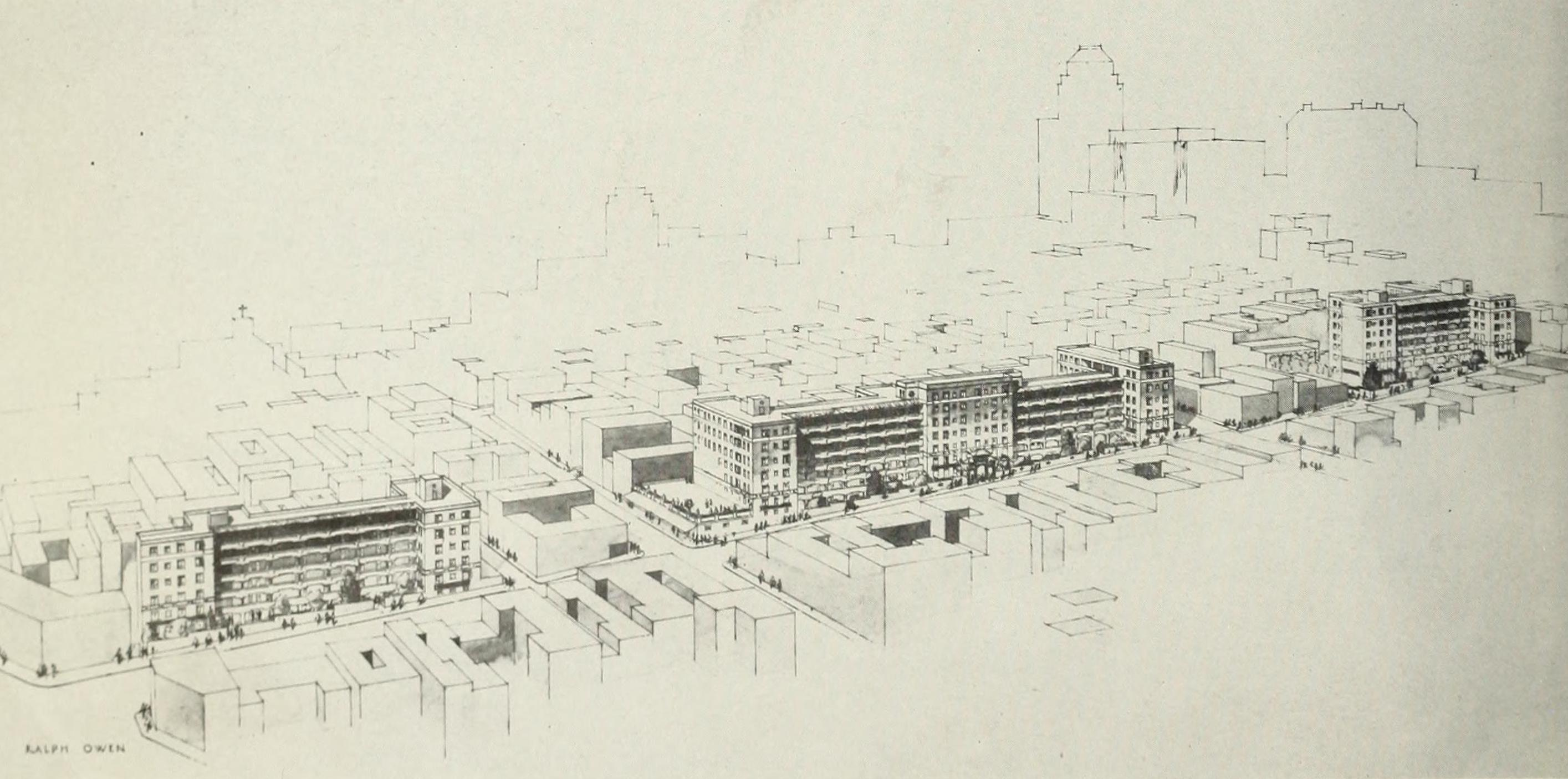 Architect's rendering of the three original Pings, elevated view south towards Pacific Avenue facades.